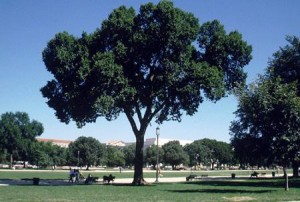 Photograph of Ulmus americana 'Jefferson', Washington D C